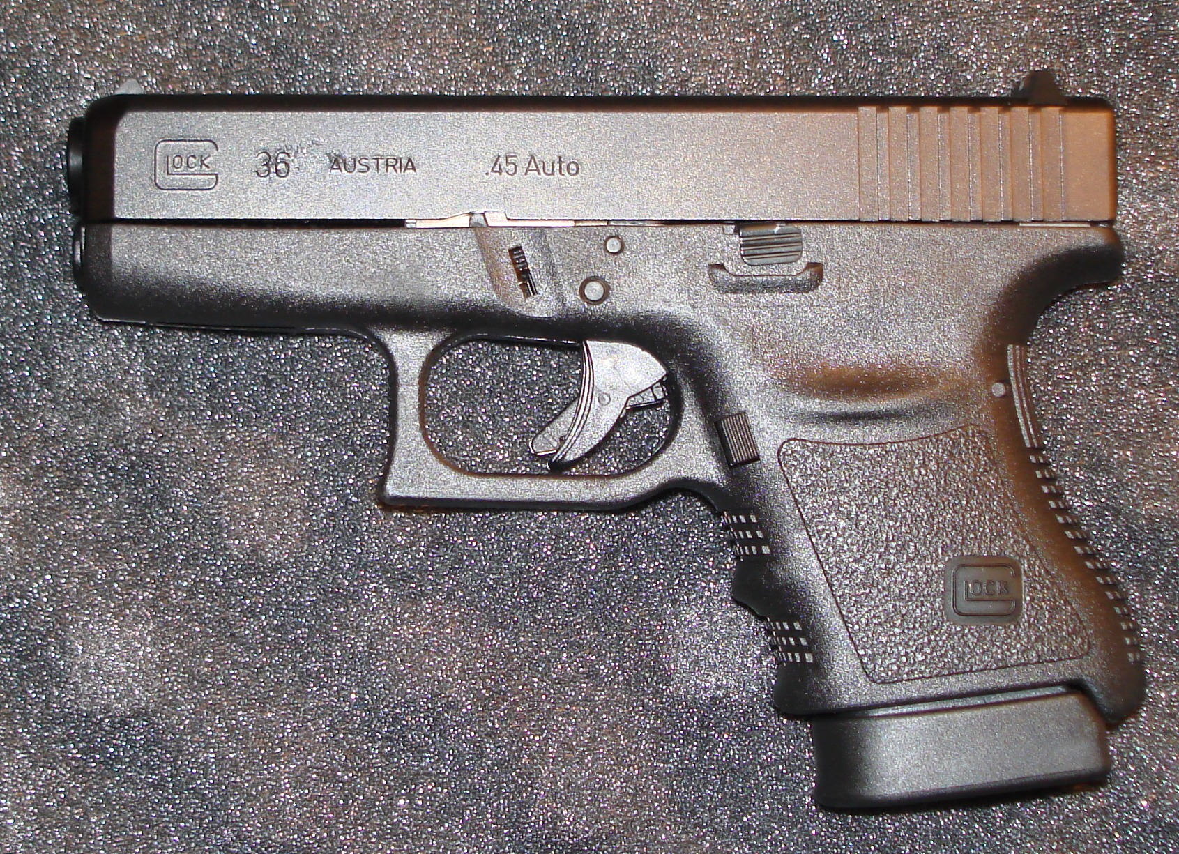 Photo taken of a Glock 36 for Wikipedia